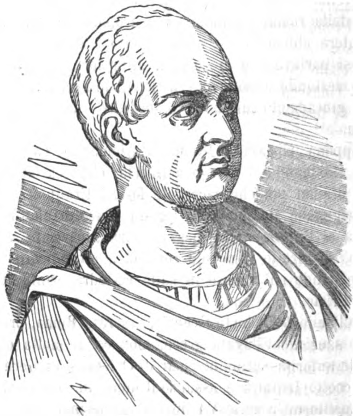 Imaginary drawn of Giovanni II Crescenzi said Nomentano by Franco Mistrali, The misteries of Vatican or the Rome of the Popes (I misteri del Vaticano o La Roma dei Papi), vol. 1, Francesco Sanvito's bookshop, Milan 1861